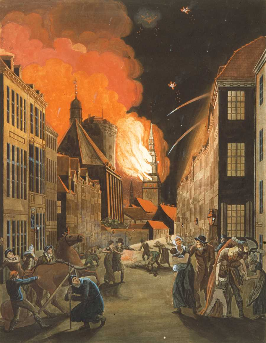 Church of Our Lady burning during the bombardment of Copenhagen 1807.